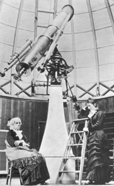 Picture of Maria Mitchell, the astronomer, and her student Mary Whitney in the Vassar College Observatory, about 1877.